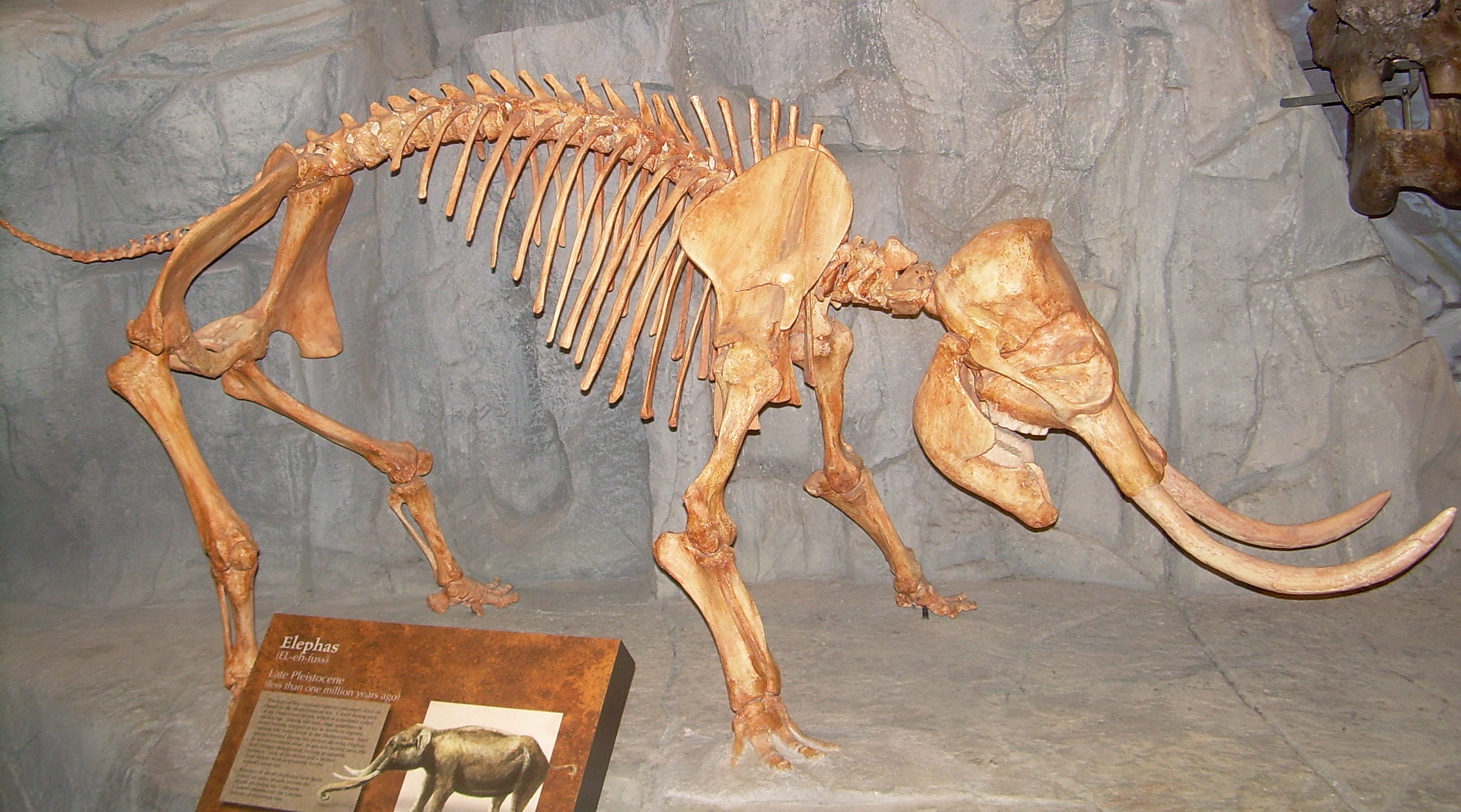 Photograph of a fossil cast of a pygmy species of Elephas/Palaeoloxodon falconeri skeleton taken at the North American Museum of Ancient Life.